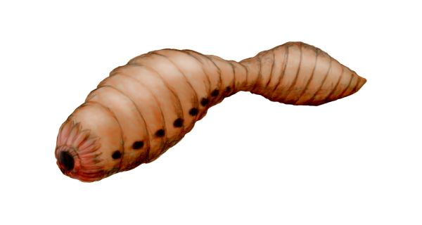 Vetulicolia